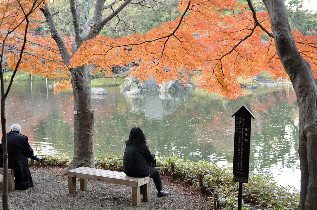 Autumn leave at Koishikawa Korakuen Garden.